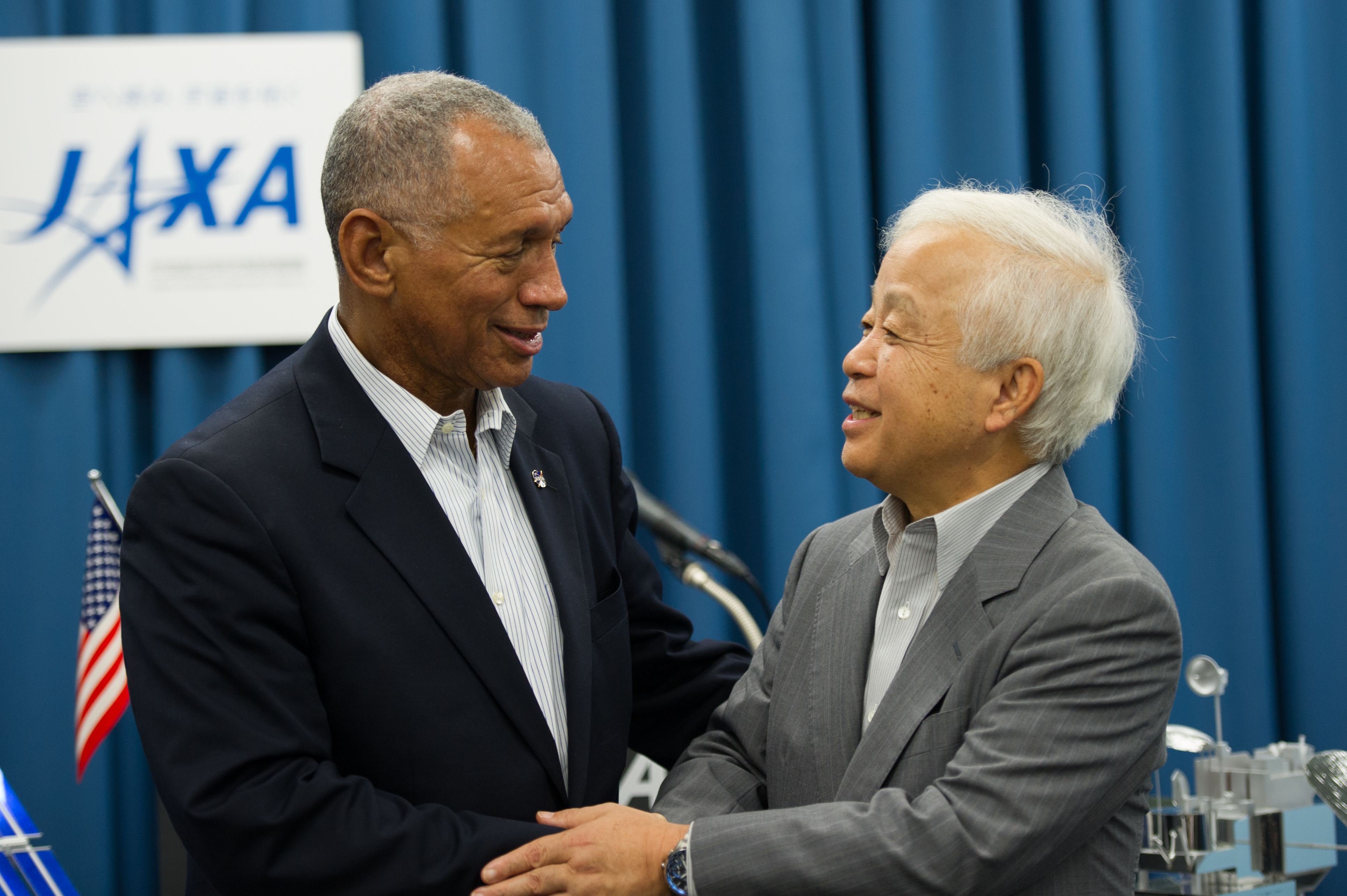 TOKYO, Japan (September 19, 2013) Charles Bolden, Jr., NASA Administrator, shakes hands with Naoki Okumura, President of the Japan Aerospace Exploration Agency (JAXA), after a press conference in Tokyo [State Department photo by William Ng/Public Domain]